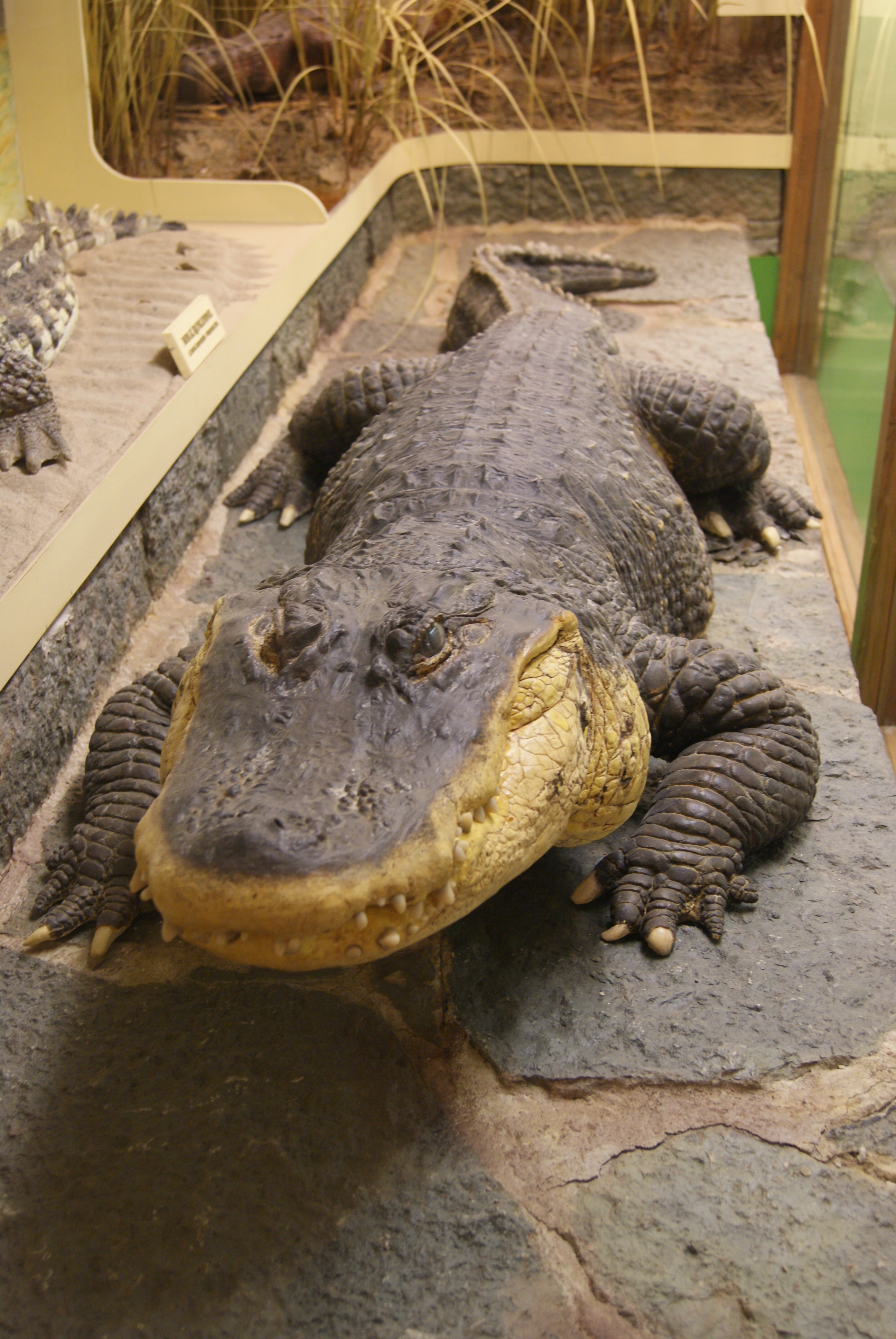 A cast of an American alligator (Alligator mississippiensis), called "Smilet", on display in Göteborgs Naturhistoriska museum (Gothenburg Museum of Natural History).